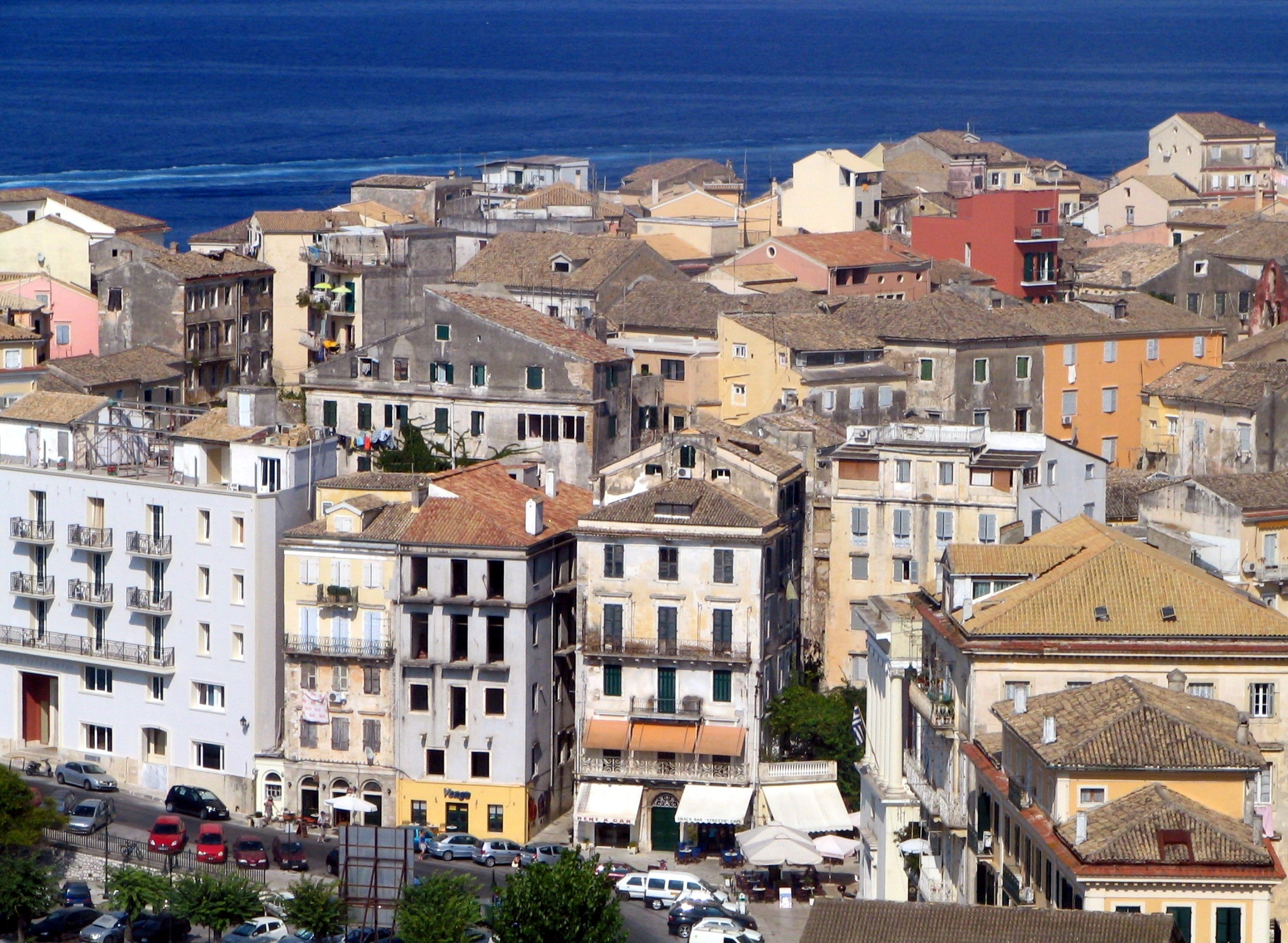 A panorama of the Venetian quarter of Corfu, Greece